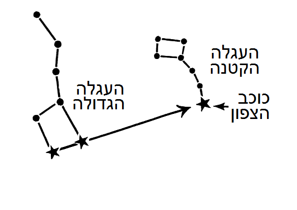 b/w line art drawing of a constellation.